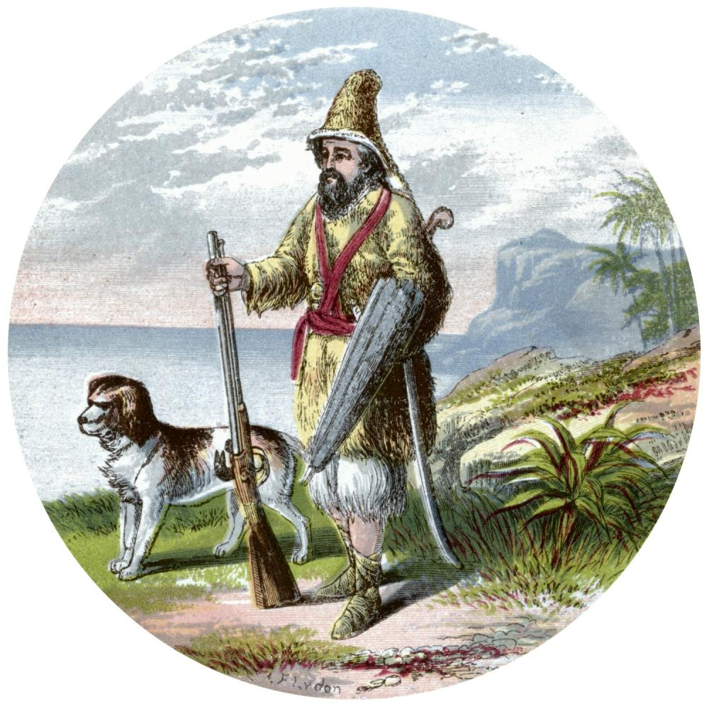 1865 Groombridge and Sons edition of Robinson Crusoe. Alexander Frank Lydon (1836-1917) was a British artist who produced a lot of natural history work, including parrots, other birds, and fish among much else. Grooombridge put out this edition in the mid 19th century and I believe it went through at least a few printings over a number of years, but I am not certain. The man holds his gun, parasol and equipment, surveying the sea with his dog standing beside him.